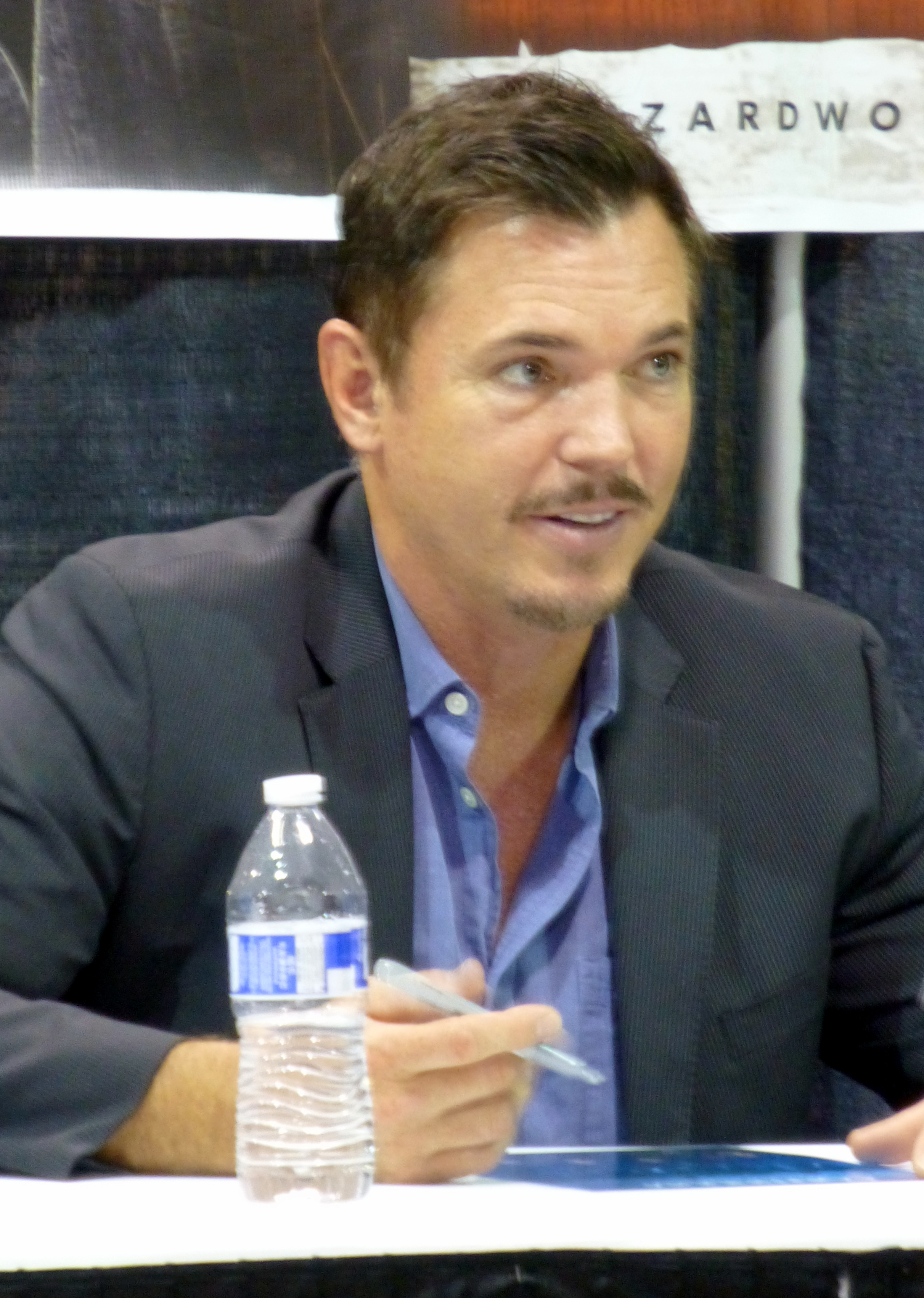 Nicholas Lea 01